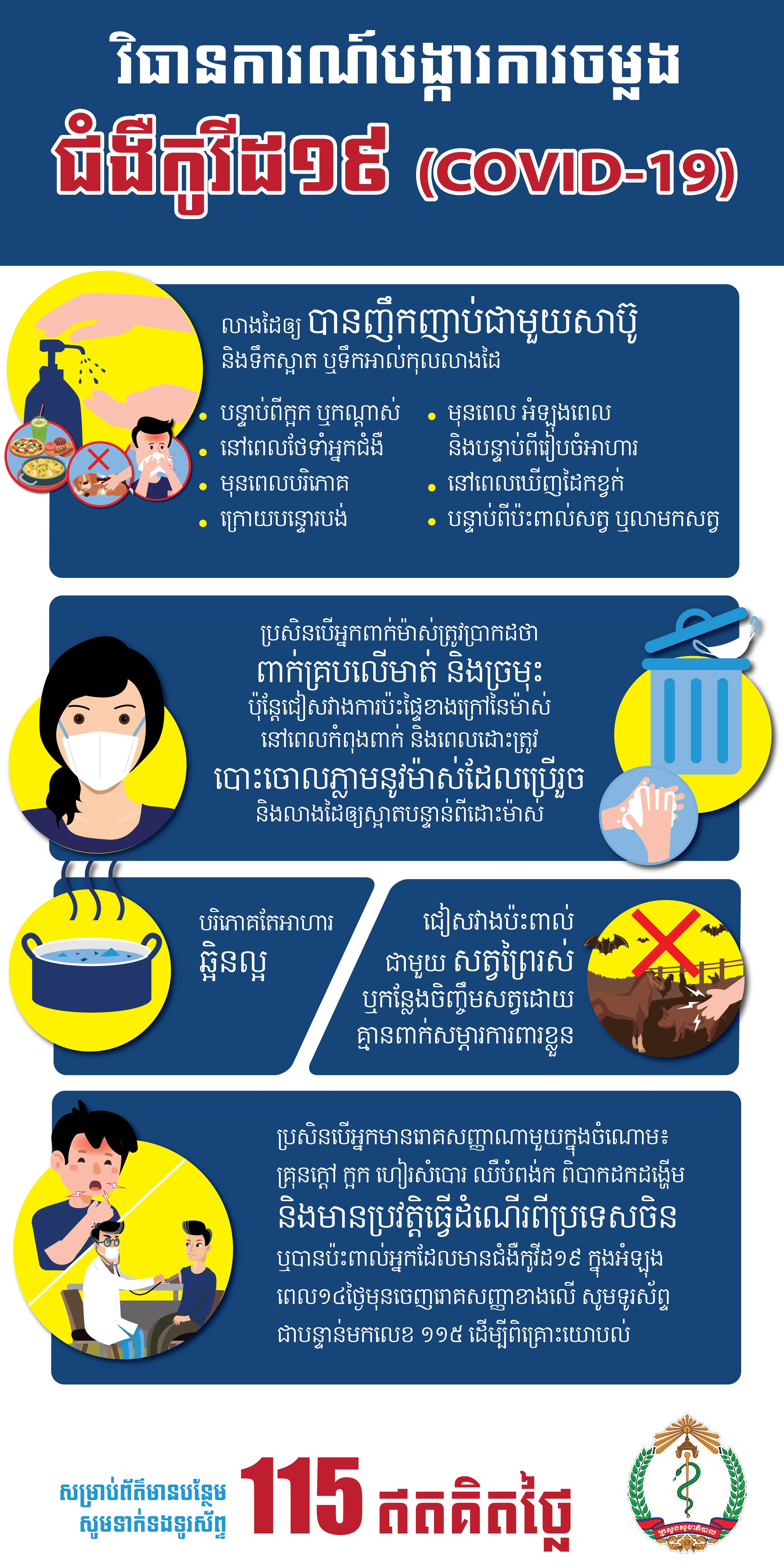 Infection Preventive Measures of Covid-19 ភាសាខ្មែរ: វិធានការណ៍បង្ការការចម្លងជំងឺកូវីដ១៩